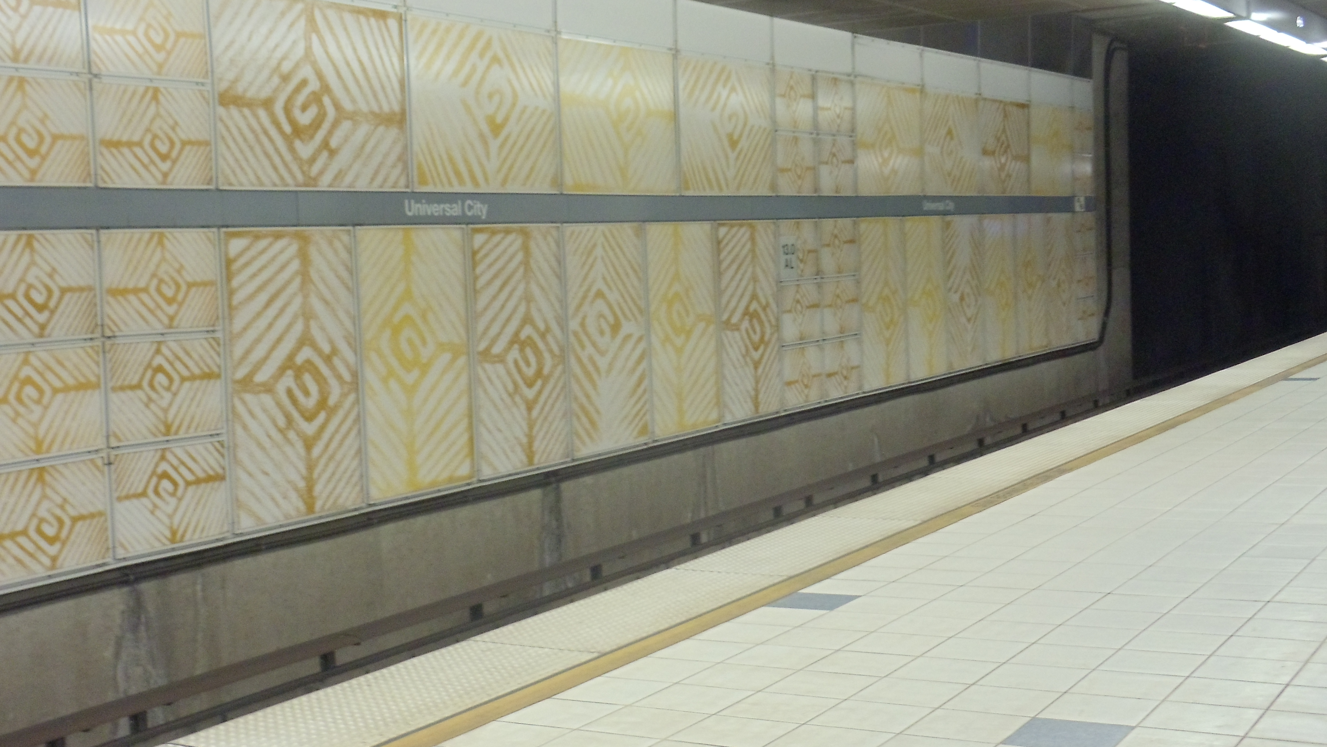 Metro Red line platform.